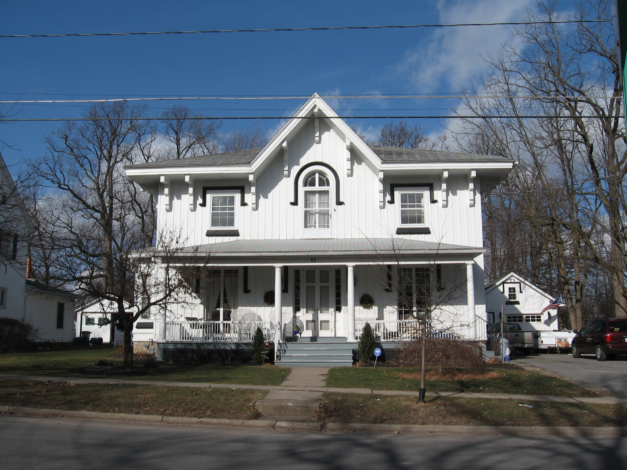 Granger Cottage, front, Canandaigua, NY